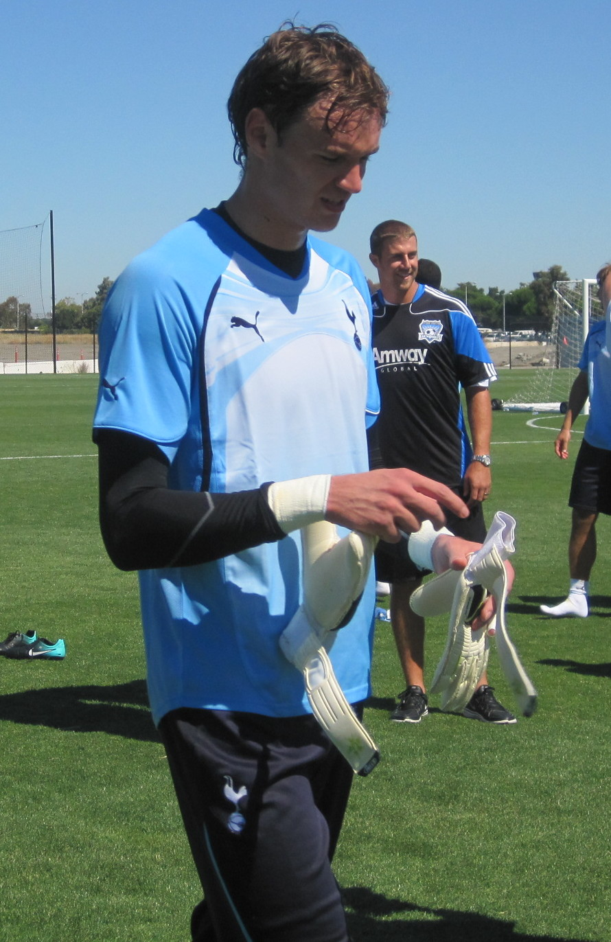 David Button of Tottenham Hotspur after training in July 2010, San Jose California.